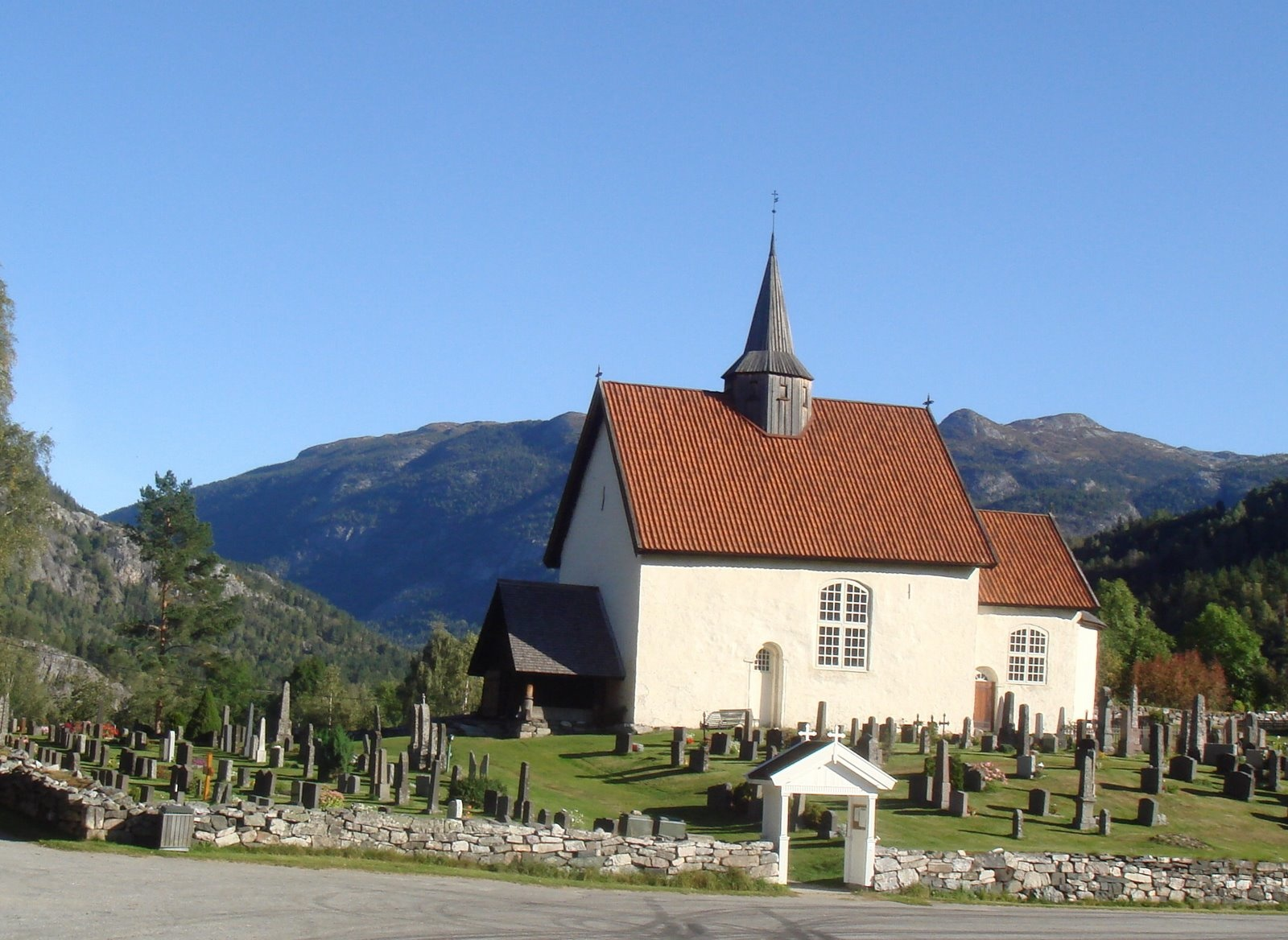 Seljord kirke (church) in Seljord, Norway